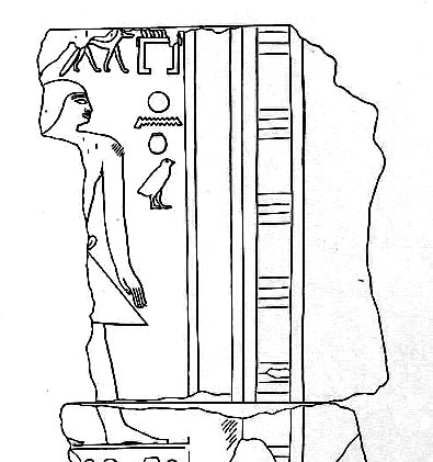 relief from the mortuary temple of king Pepi II, showing the vizier Khenu